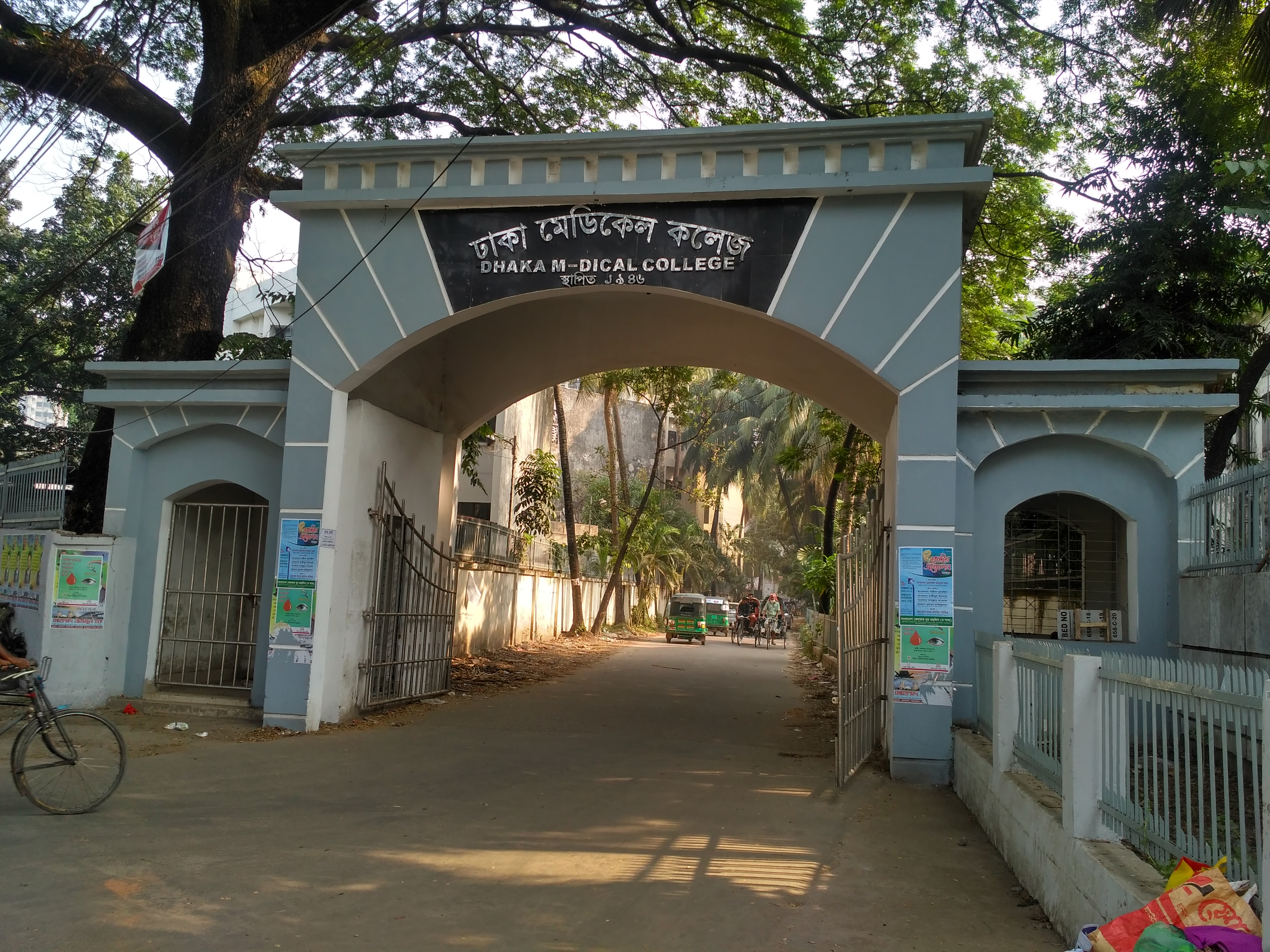 Entrance of Dhaka medical college hospital in the west side, Dhaka, Bangladesh. (Photo of 10.11.2018.)